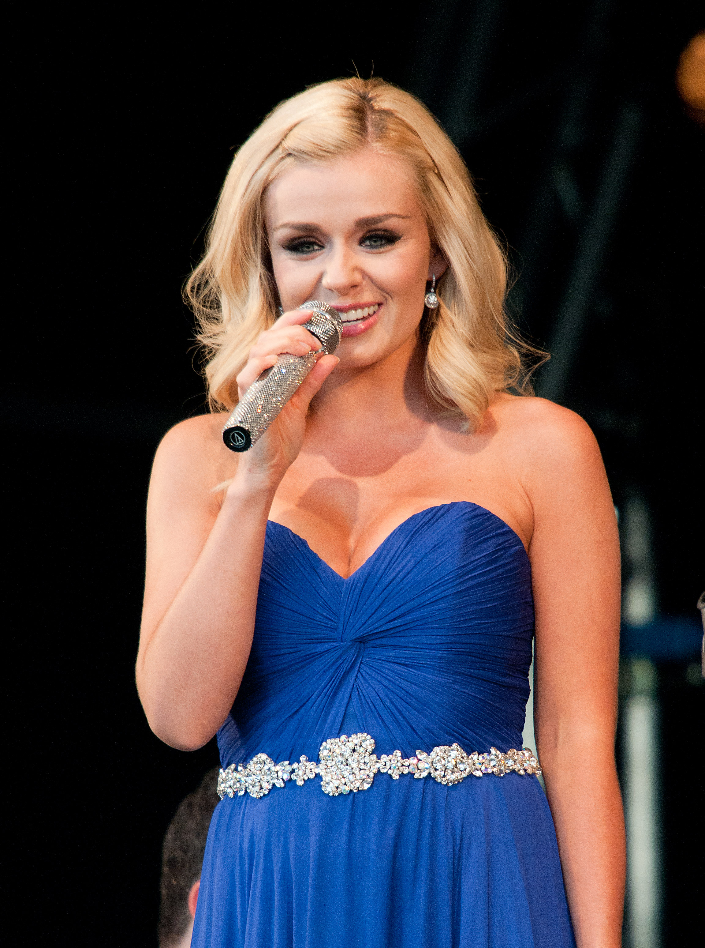 Katherine Jenkins live at Clumber Park in August 2011.